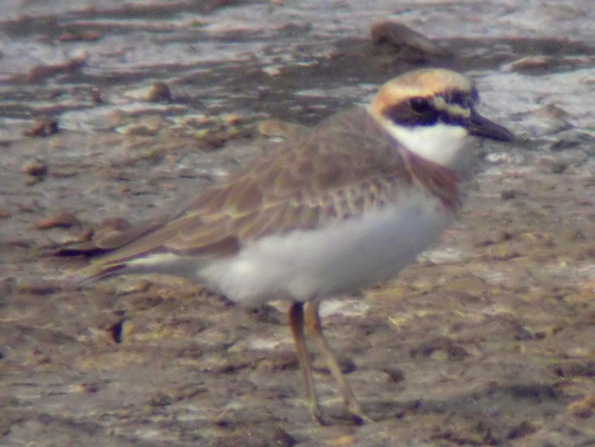 Same new friend but with different dressing at the wet lands.